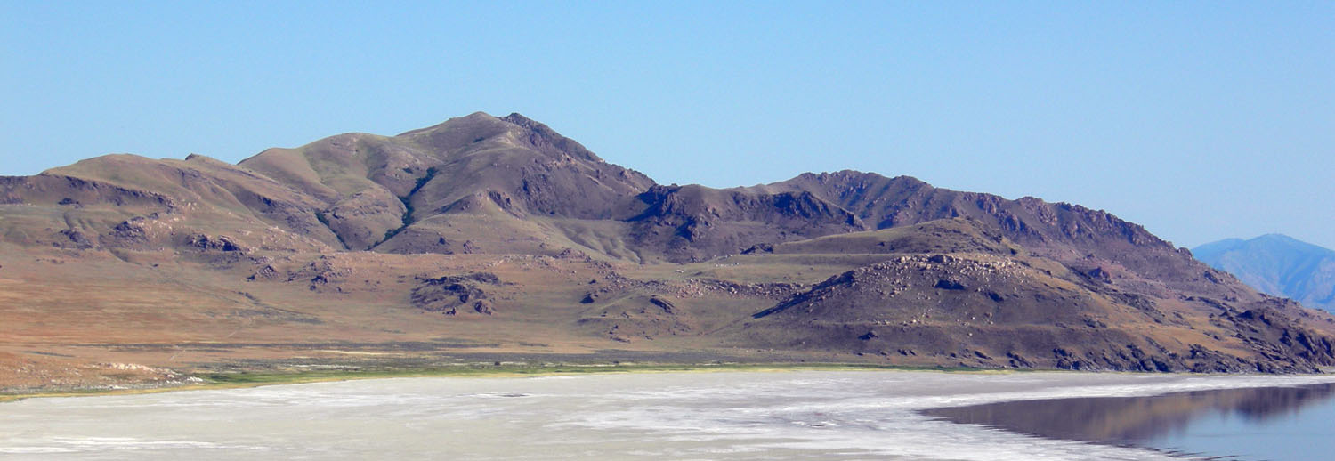 Wave-cut platforms from Lake Bonneville preserved on Antelope Island, Great Salt Lake, Utah.